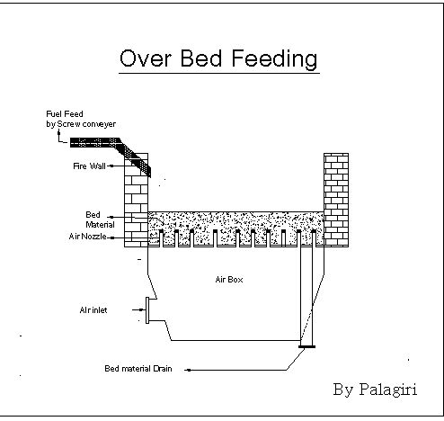 Over bed feeding ,FBC Boiler